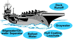 Illustration of types of pollution discharges from U.S. armed forces vessels